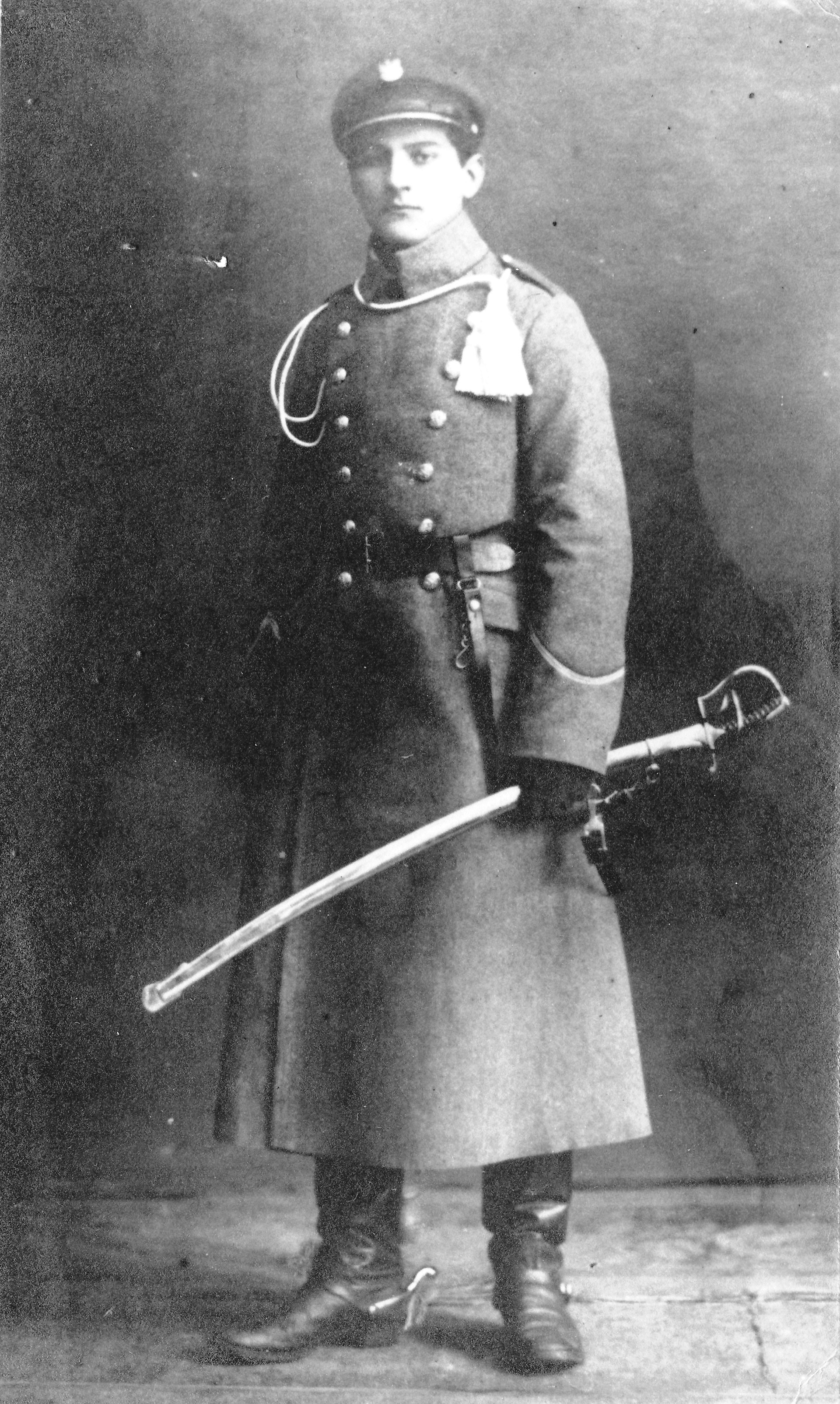 Tomasz Piskorski around 1920